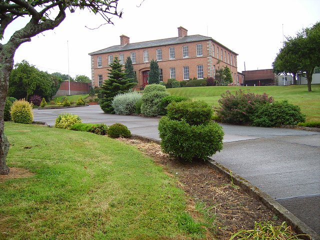 Council offices. Wexford County Council offices.